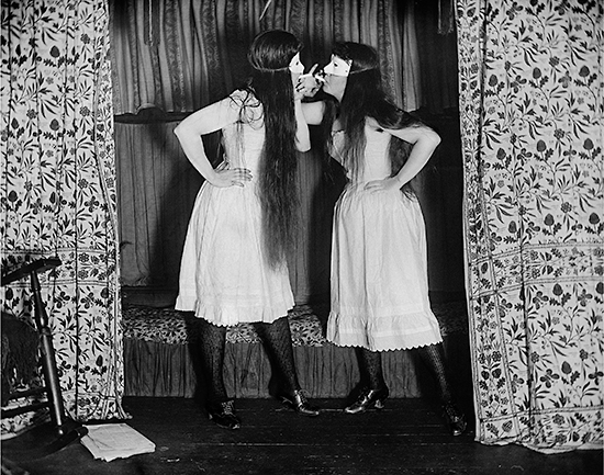 silver gelatin print